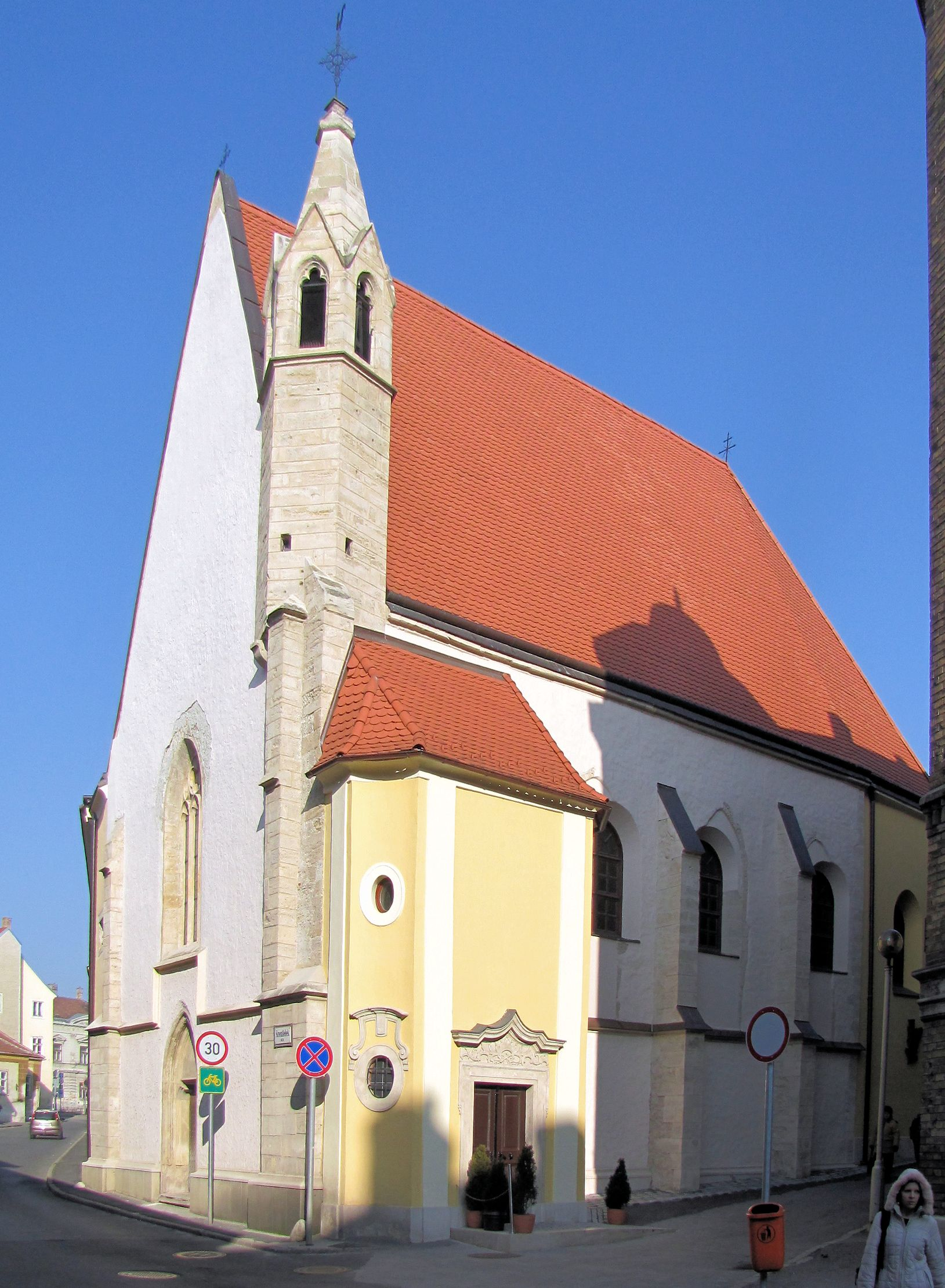 Church of the Holy Spirit, Sopron, Hungary. Originally from the 15th century, the interior is decorated with baroque frescoes by Stephan Dorfmeister.